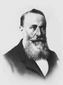 Domenico Ghirardelli